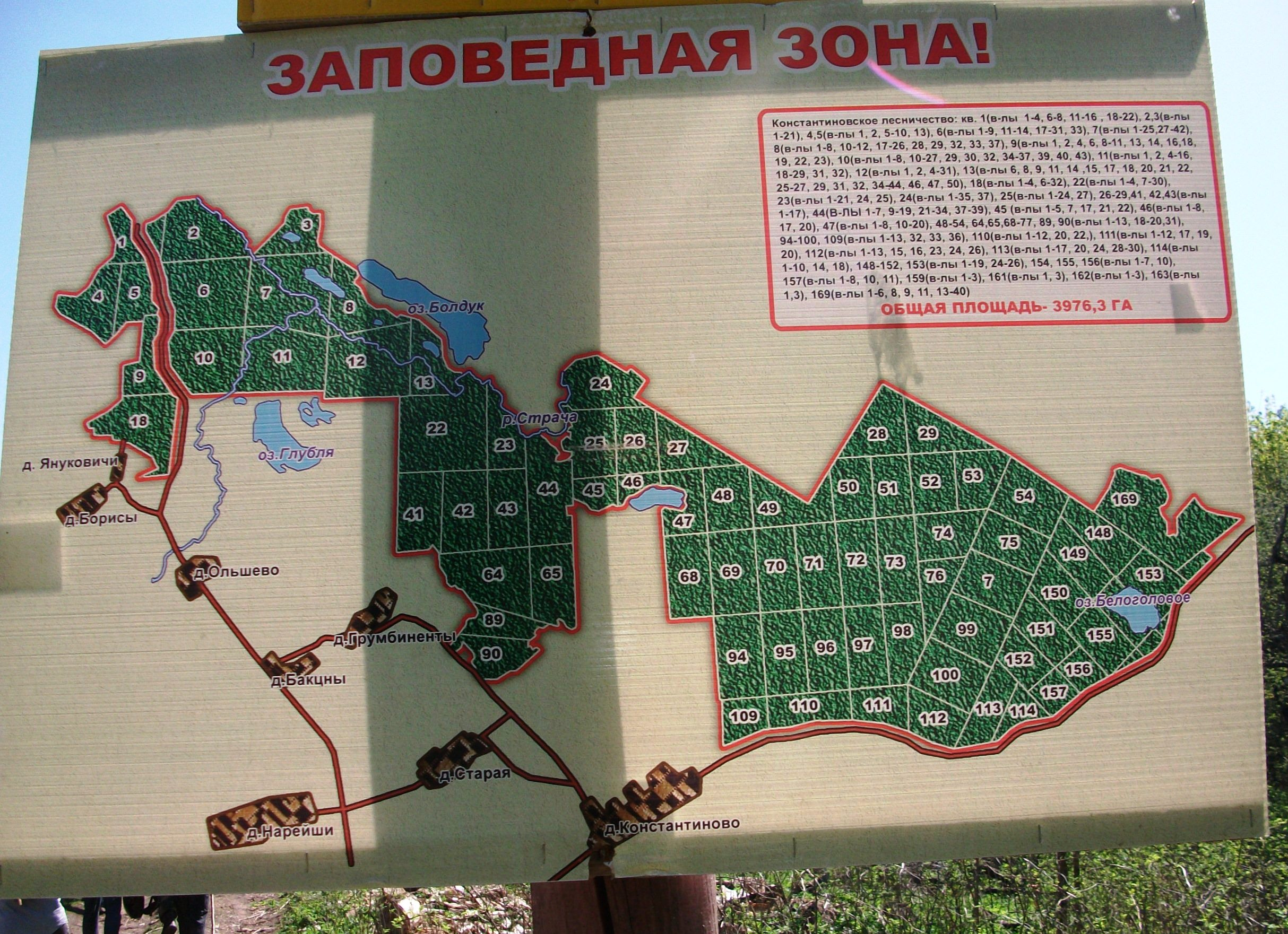 Map of Balduk lakes group